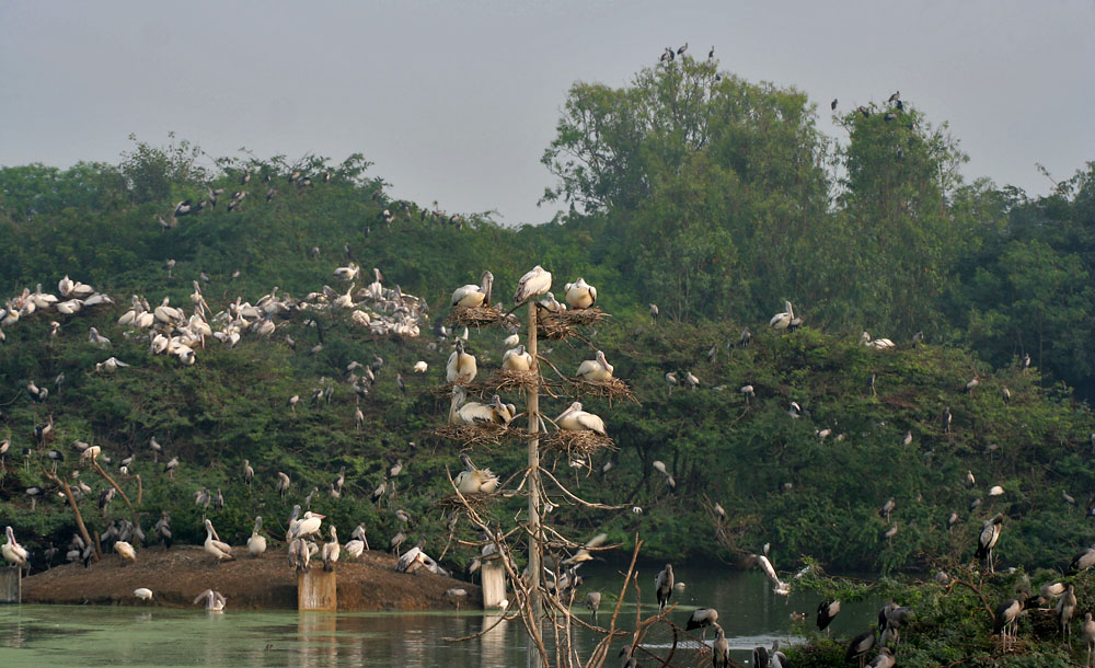 Spot-billed PelicanPelecanus philippensis in Uppalapadu, Andhra Pradesh, India.